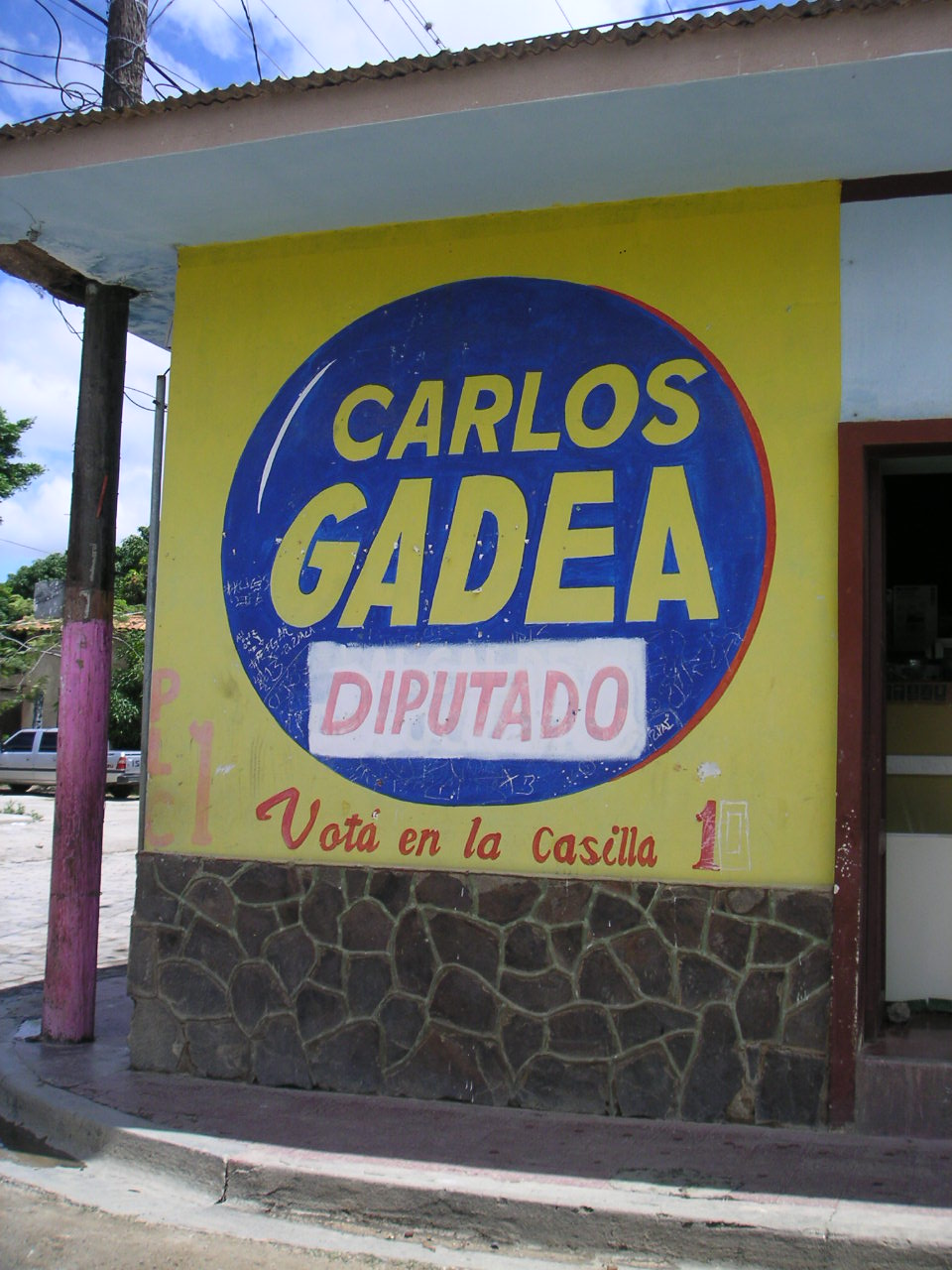 Partido Liberal Constitucional(Constitutional Liberal Party) mural in Ocotal, Nicaragua. Photo: Soman